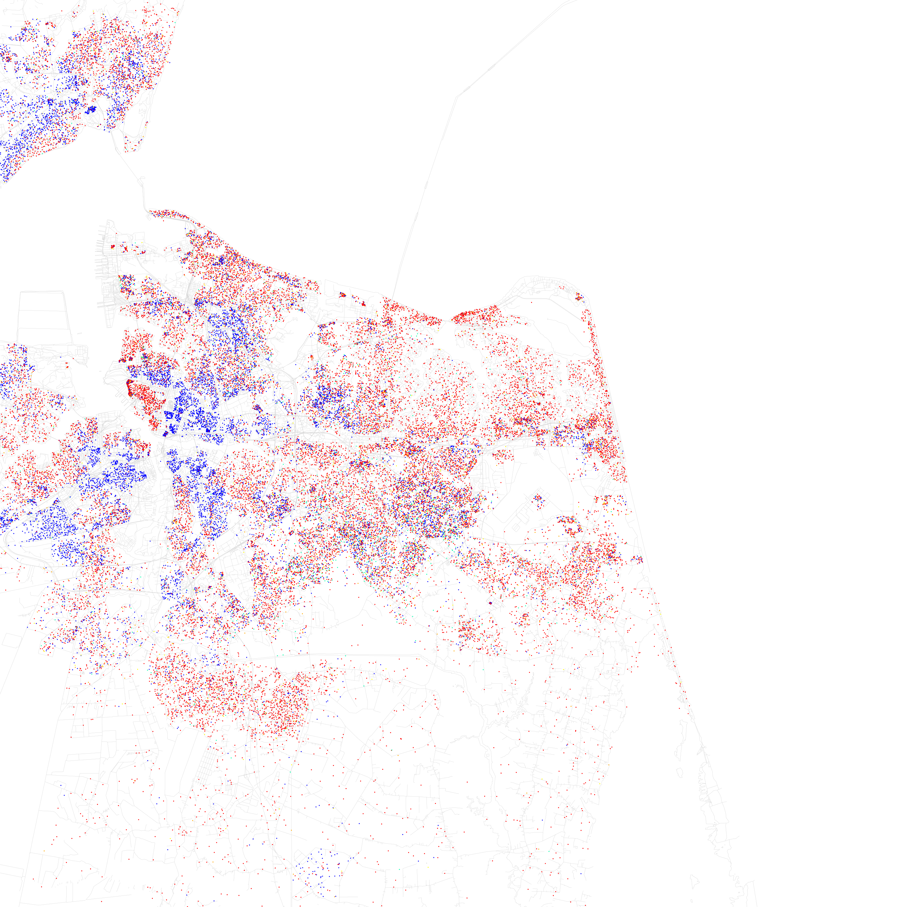 Maps of racial and ethnic divisions in US cities, inspired by Bill Rankin's map of Chicago, updated for Census 2010. Red is White, Blue is Black, Green is Asian, Orange is Hispanic, Yellow is Other, and each dot is 25 residents. Data from Census 2010. Base map © OpenStreetMap, CC-BY-SA